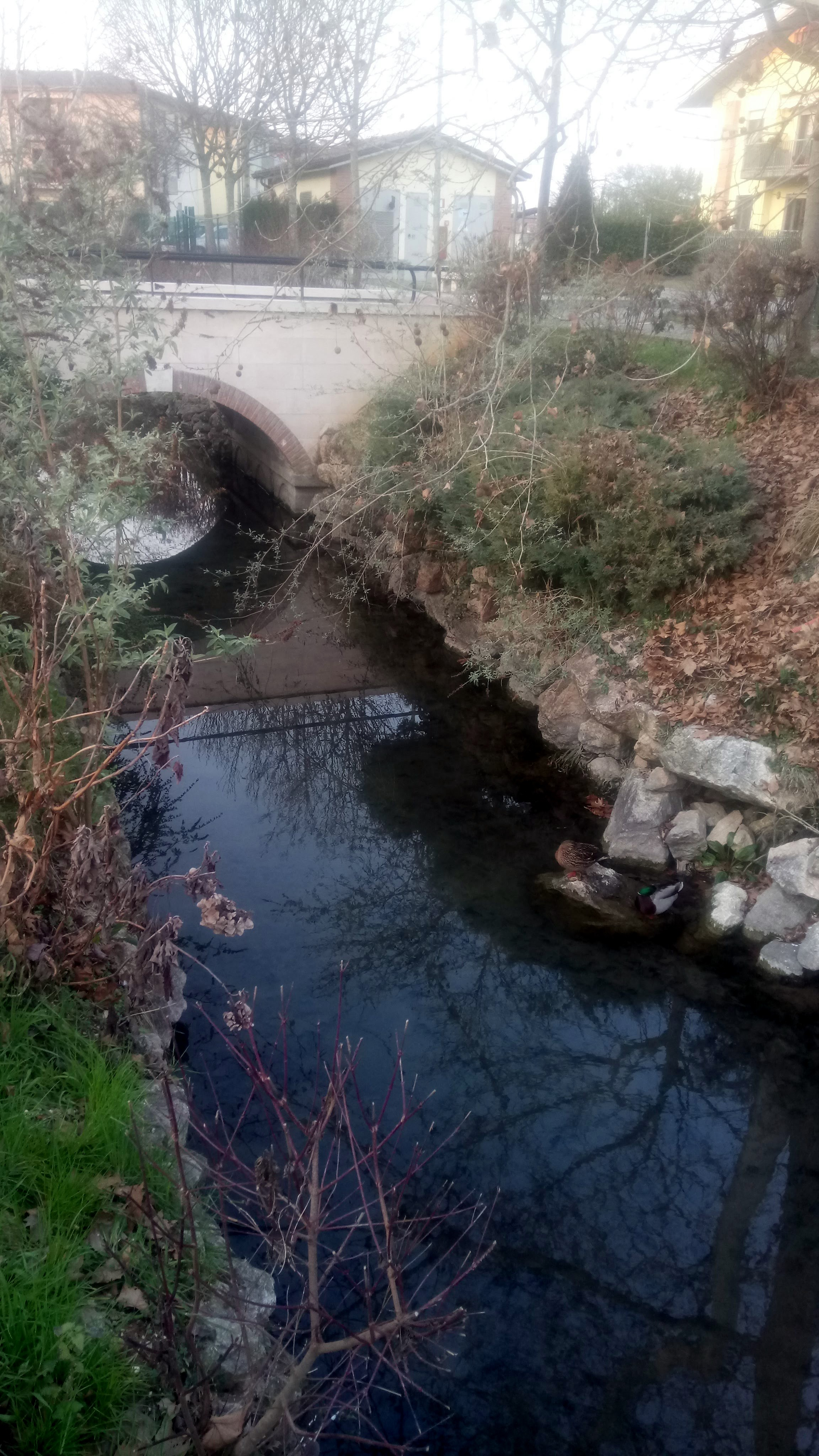 Fosso Baiardina, Azzano, Italia